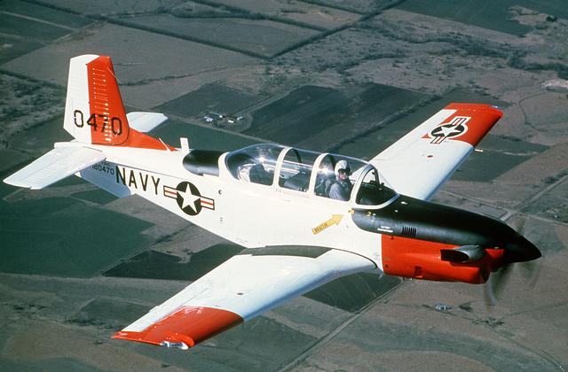 T-34C Turbo Mentor can be distinguished from the T-34B Mentor by the two exhaust stacks protruding from the engine cowling.